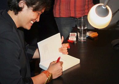 Writer Sandra Woehe signing her second book "Giraffe im Nadeloehr".